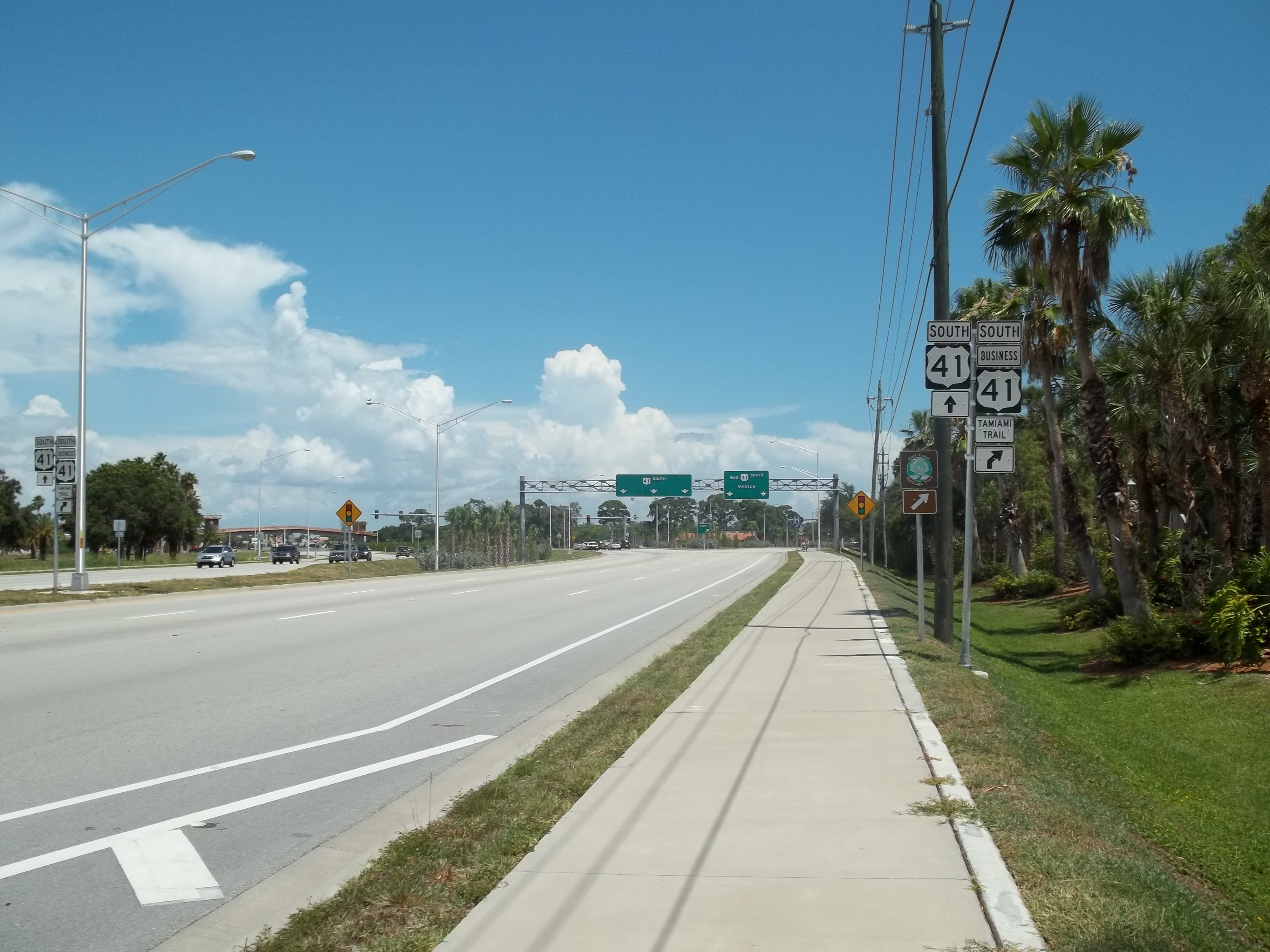 Venice, Florida: US 41, looking south